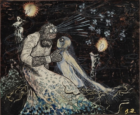 Kikimora im Sumpf